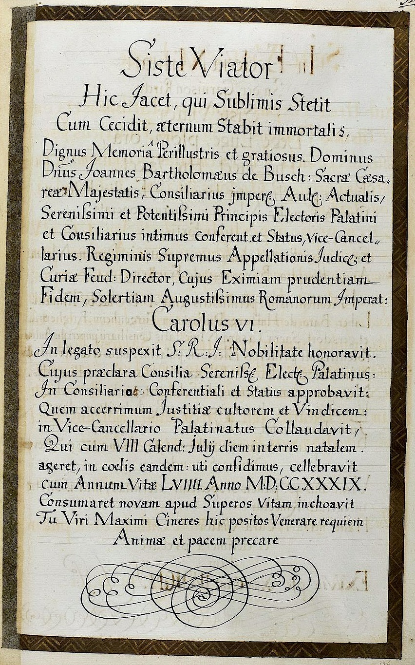 Epitaphinschrift "Johann Bartholomäus von Busch", Mannheim, St. Sebastian (nicht mehr vorhanden)